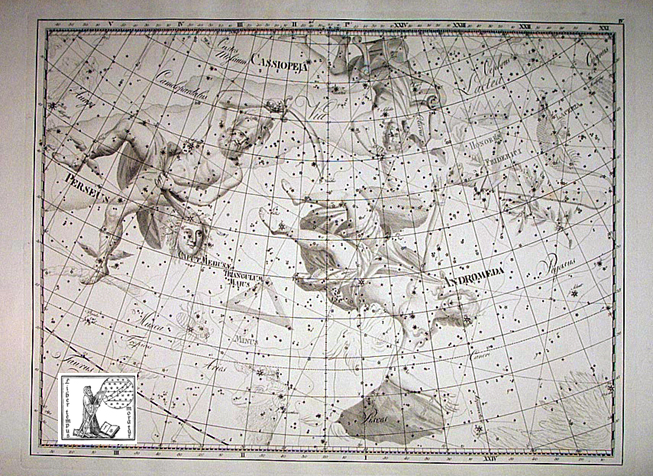 One page of the celestial map ”Uranographia". Andromeda, Perseus, Cassiopeia and so on.